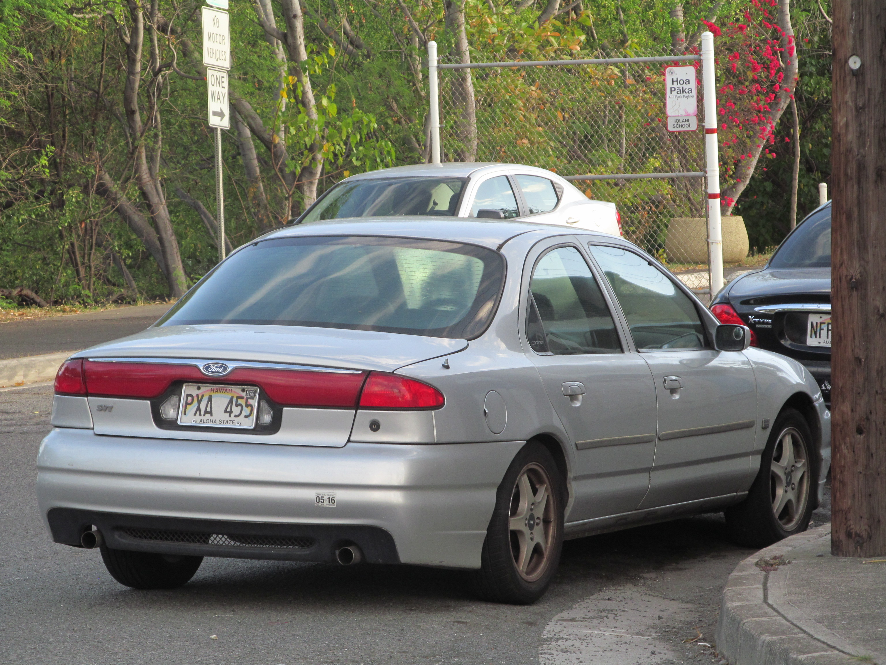 The mental high performance American Mondeo with a tuned version of the 2.5 Duratec V6 and 5 speed manual only. They were mostly special order only from select Ford dealerships and had upgraded pretty much everything (brakes, tyres...)